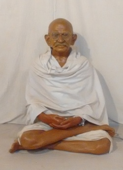 Wax museum mysore மெழுகு அருங்காட்சியகம் மைசூர்